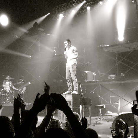 Twenty One Pilots frontman, Tyler Joseph, performing at the LC Pavilion on April 28th, 2012